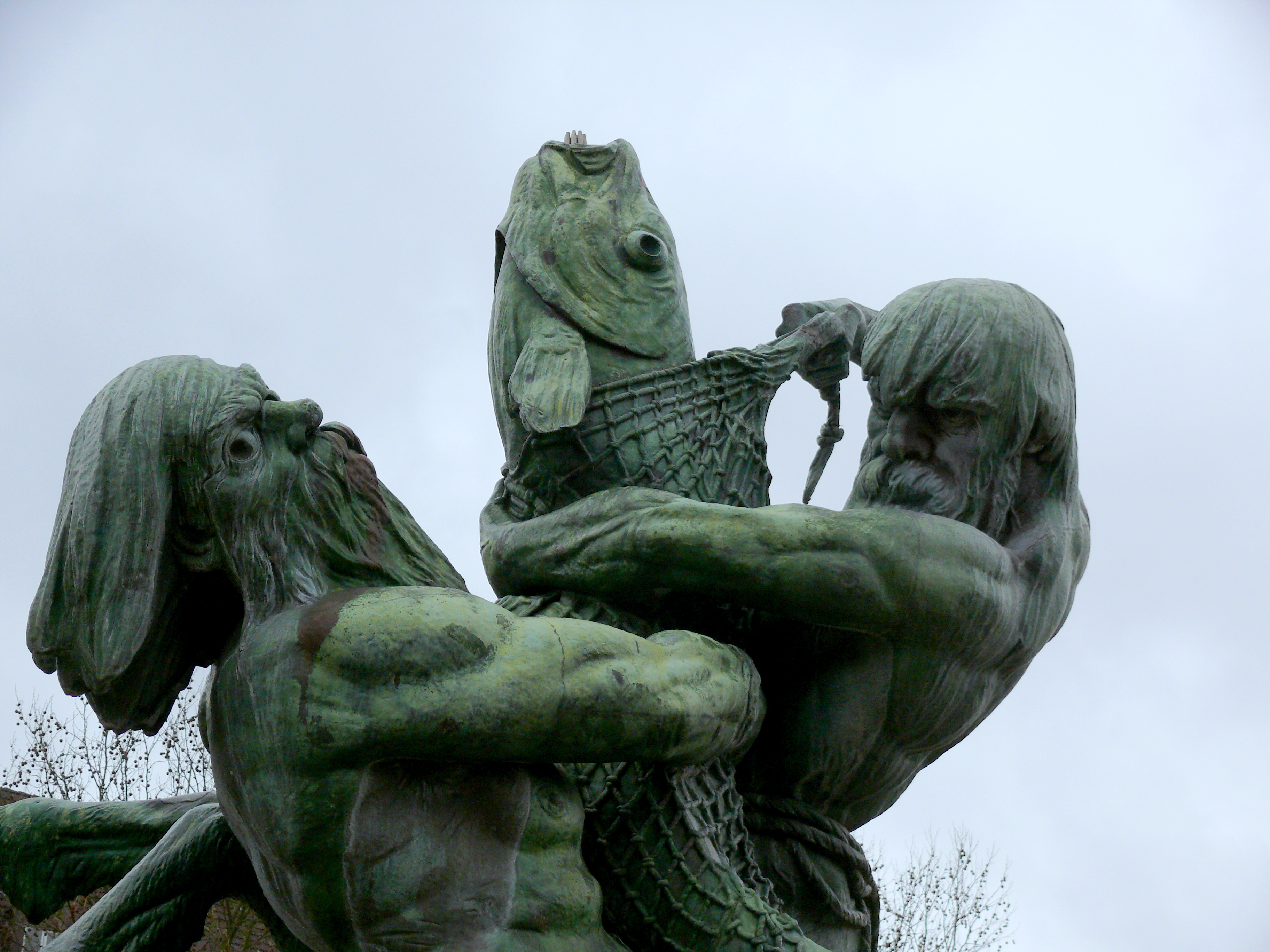 Stuhlmann fountain, Altona (Hamburg, Germany). Heads of the two centaurs